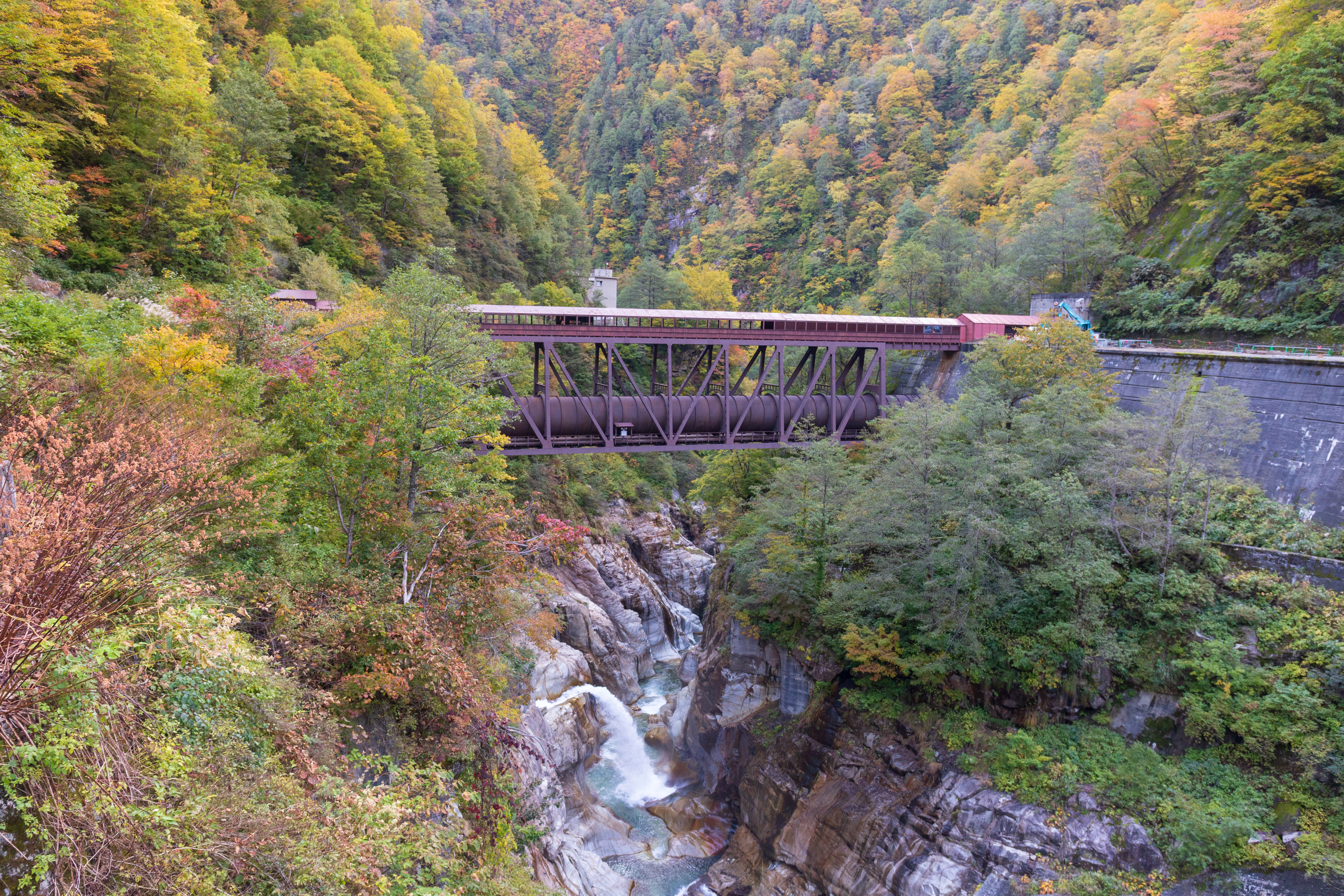 Kurobe Senyo Railway Sennindani Station in Kurobe City, Toyama Prefecture, Japan, as seen from Sennindani Dam